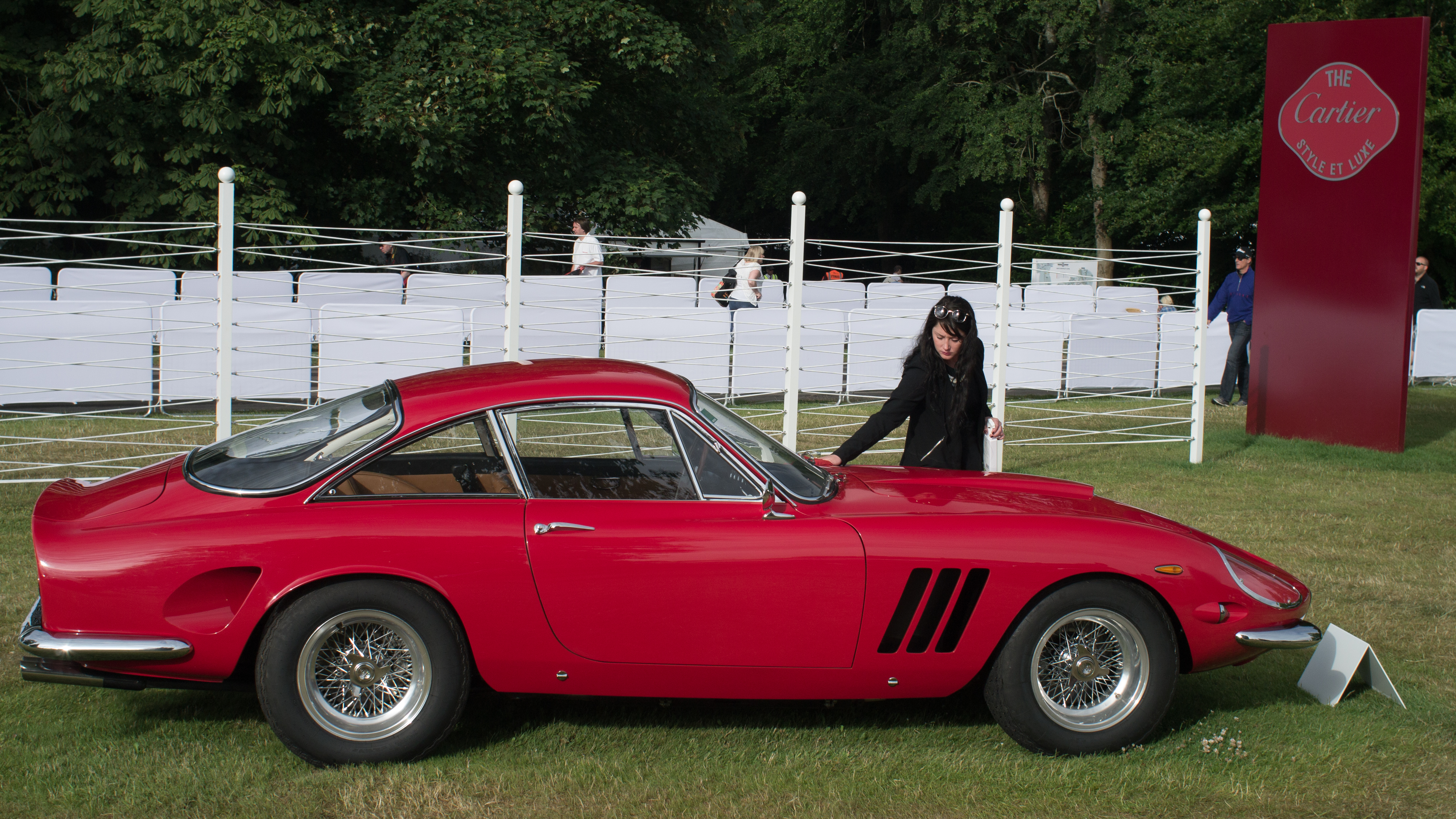 1963 Ferrari 250 GT Lusso Fantuzzi at the Goodwood Festival of Speed 2015.